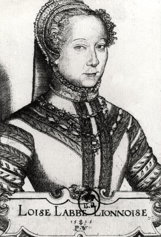 Engraving of Louise Labé/Loise Labbe (1522-1566), French poet